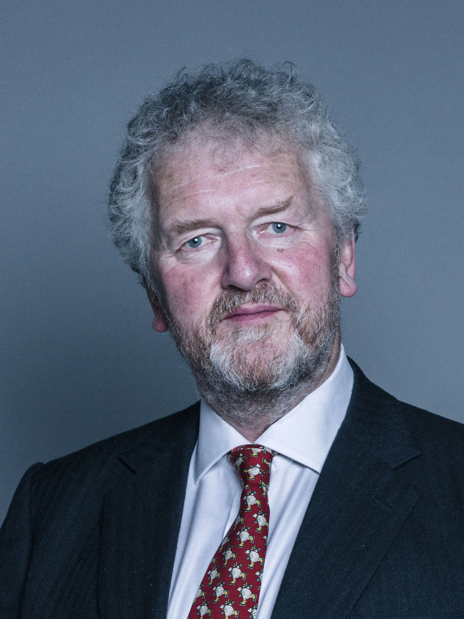 Official portrait of Lord Lucas